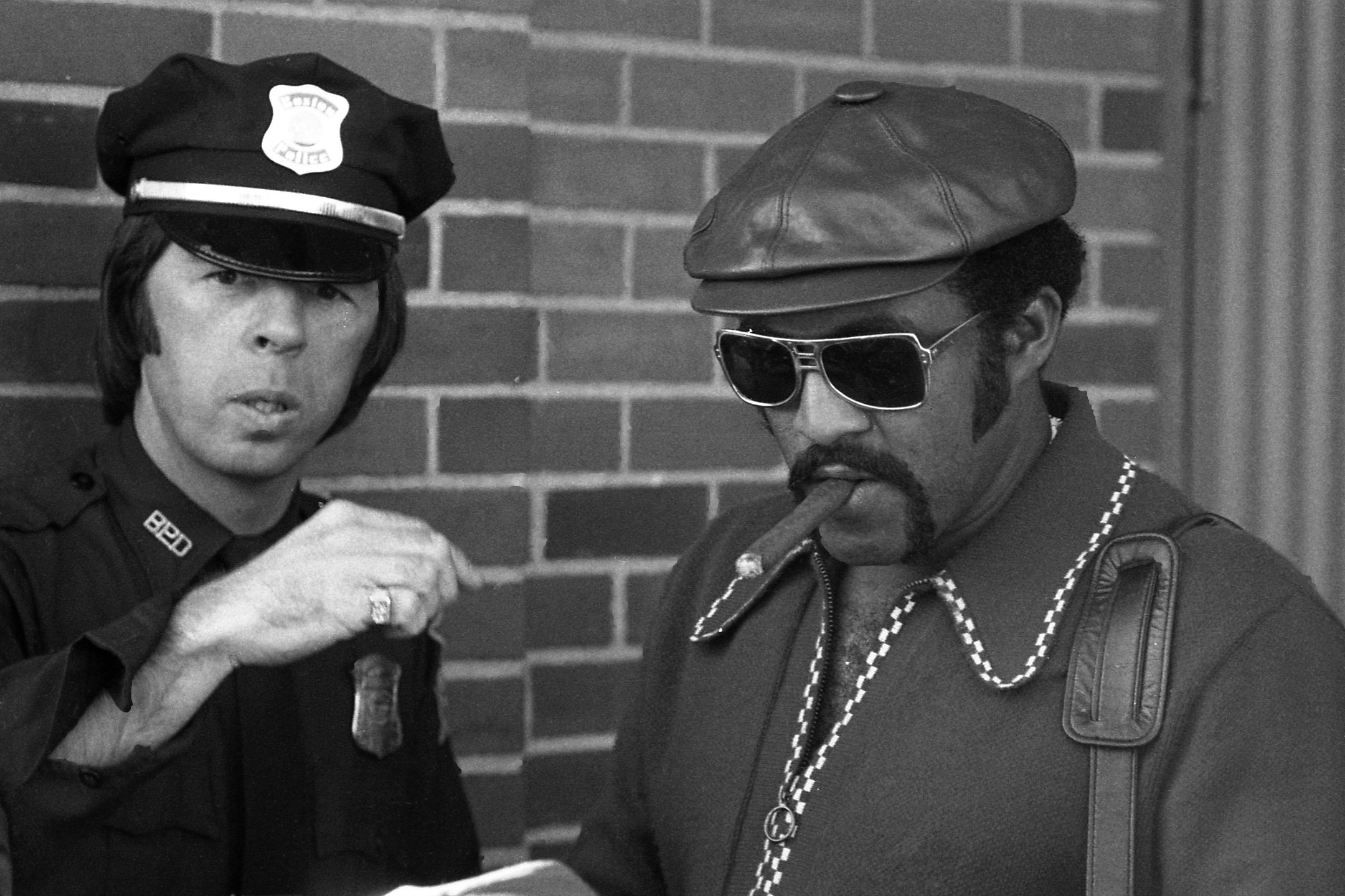 Luis Tiant Outside Fenway Park 1970's